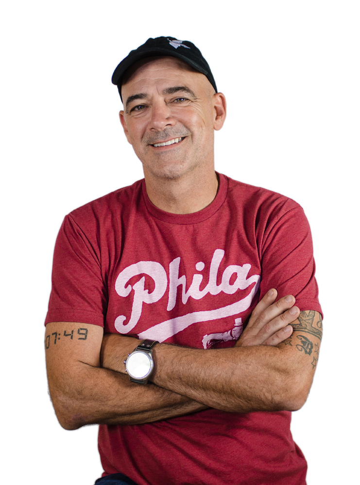 Taken at our coffee roastery in Port Richmond, Philadelphia, PA to promote his trip to Morocco for one of his shows, Uncommon Grounds. The company's resident photographer, Alexander, took this image at the roastery. You can see this shirt during the Moroccan episode that aired in 2015.